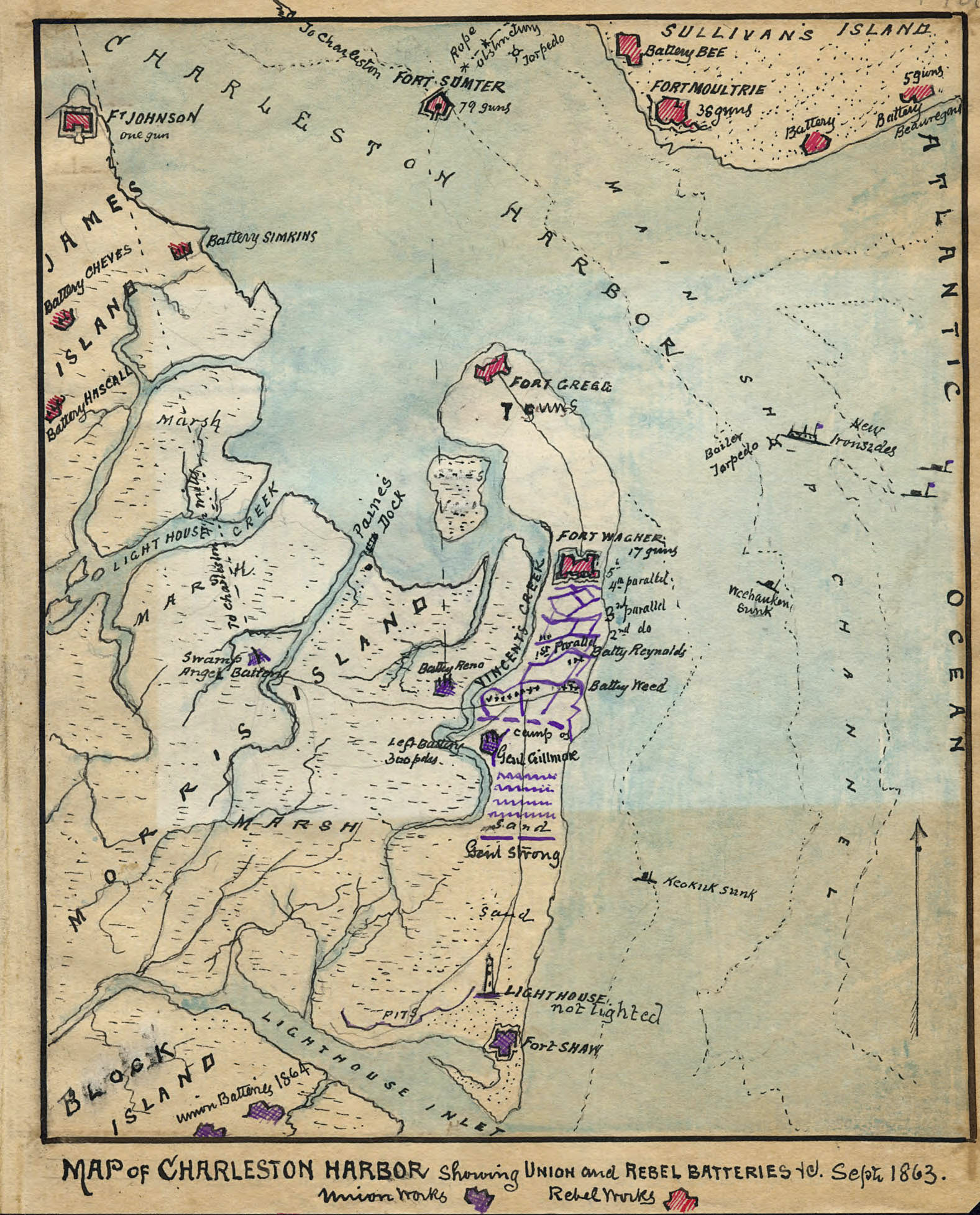 Plan of Genl Q. A. Gillmore's position on Morris Island, Charleston S.C.